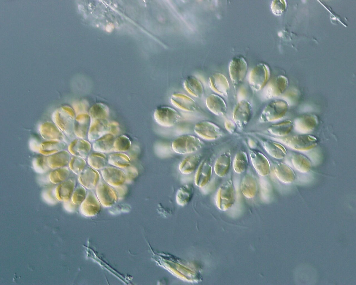 Synura spinosa (left colony) and S. petersenii (right colony), additionally Mallomonas sp. in the bottom / from Shishitsuka-Pond, Tsuchiura, Ibaraki Pref., Japan / Microscope:Leica DMRD (DIC)